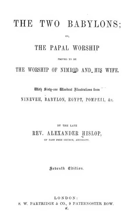 Cover of the 7th edition which came out 1871.